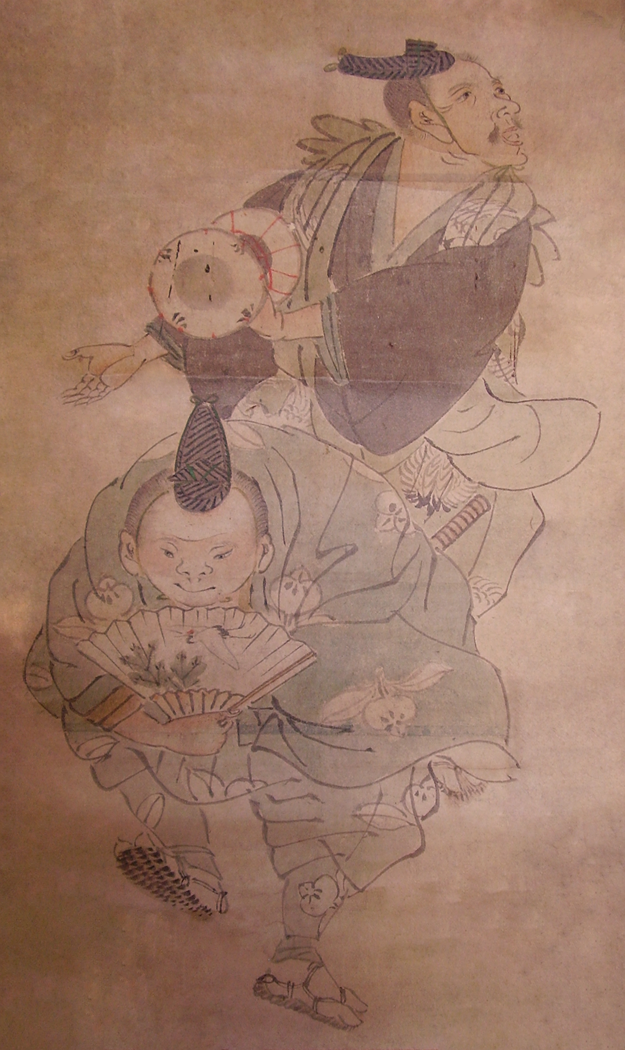 Scroll-mounted painting depicting a traditional Japanese 2-man comedy team know as "manzai" (generic term). Ink & watercolours(?) on paper. Unsigned, artist unknown. Japan, late 19th century or earlier. This is the working-print for a cropped/detail & restoration/retouch version of the image, focusing on the 2 characters. Intended for use on the Wikipedia article for "Manzai" (& elsewhere, as appropriate).